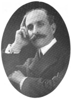 Photo of Ben Teal, c. 1910